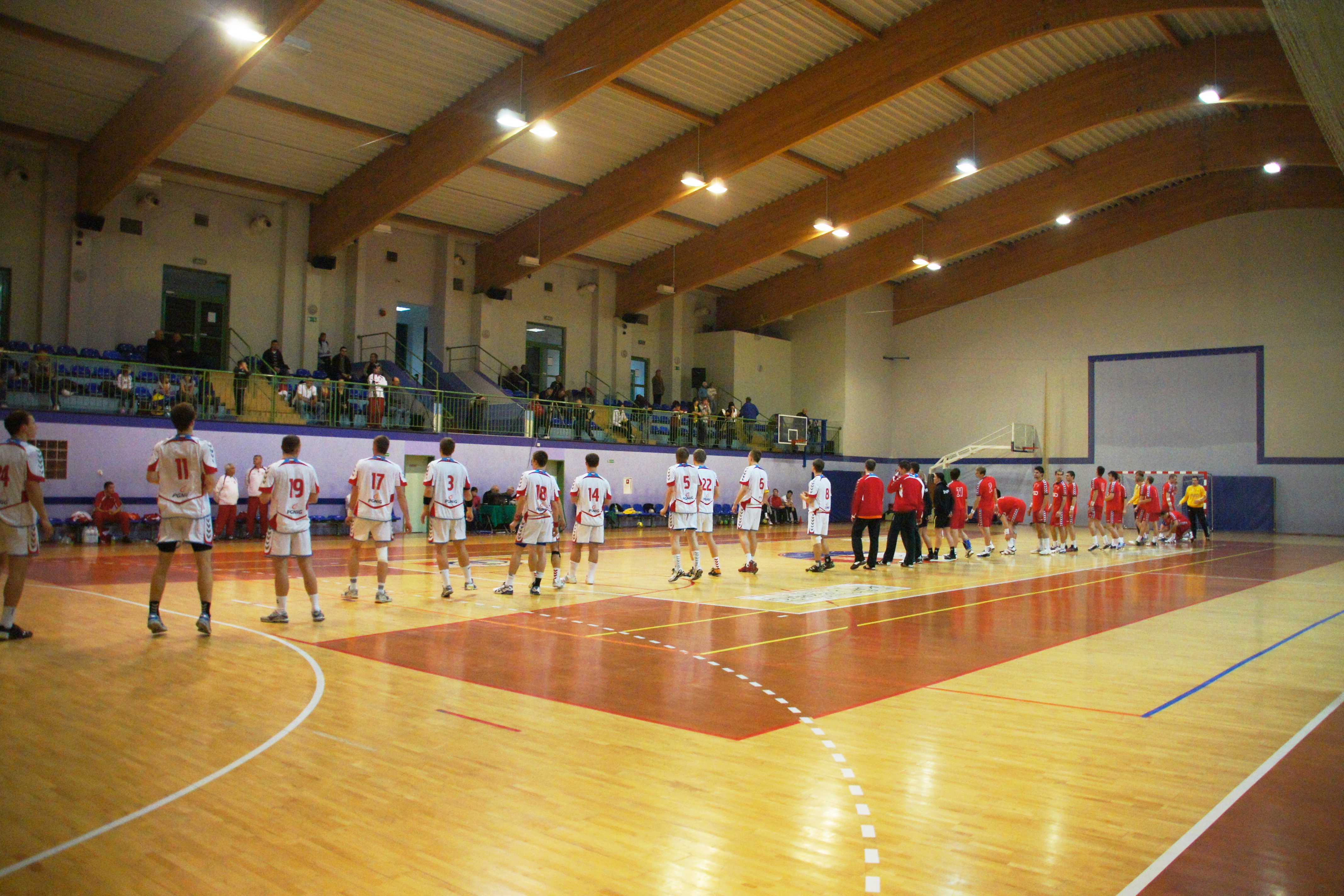 Sports hall, handball tournament. Integracyjne Centrum Sportu i Rekreacji, Józefów, Otwock County, Poland.